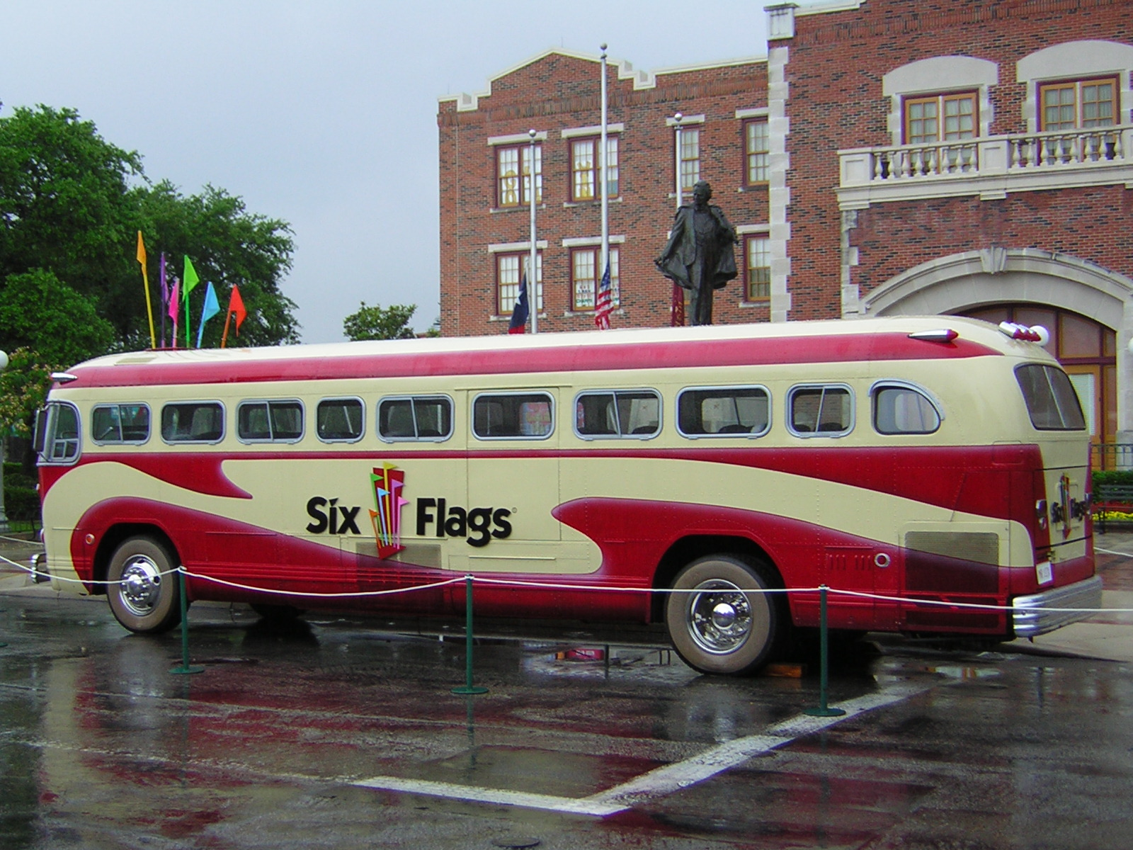 Where's Mr. Six?